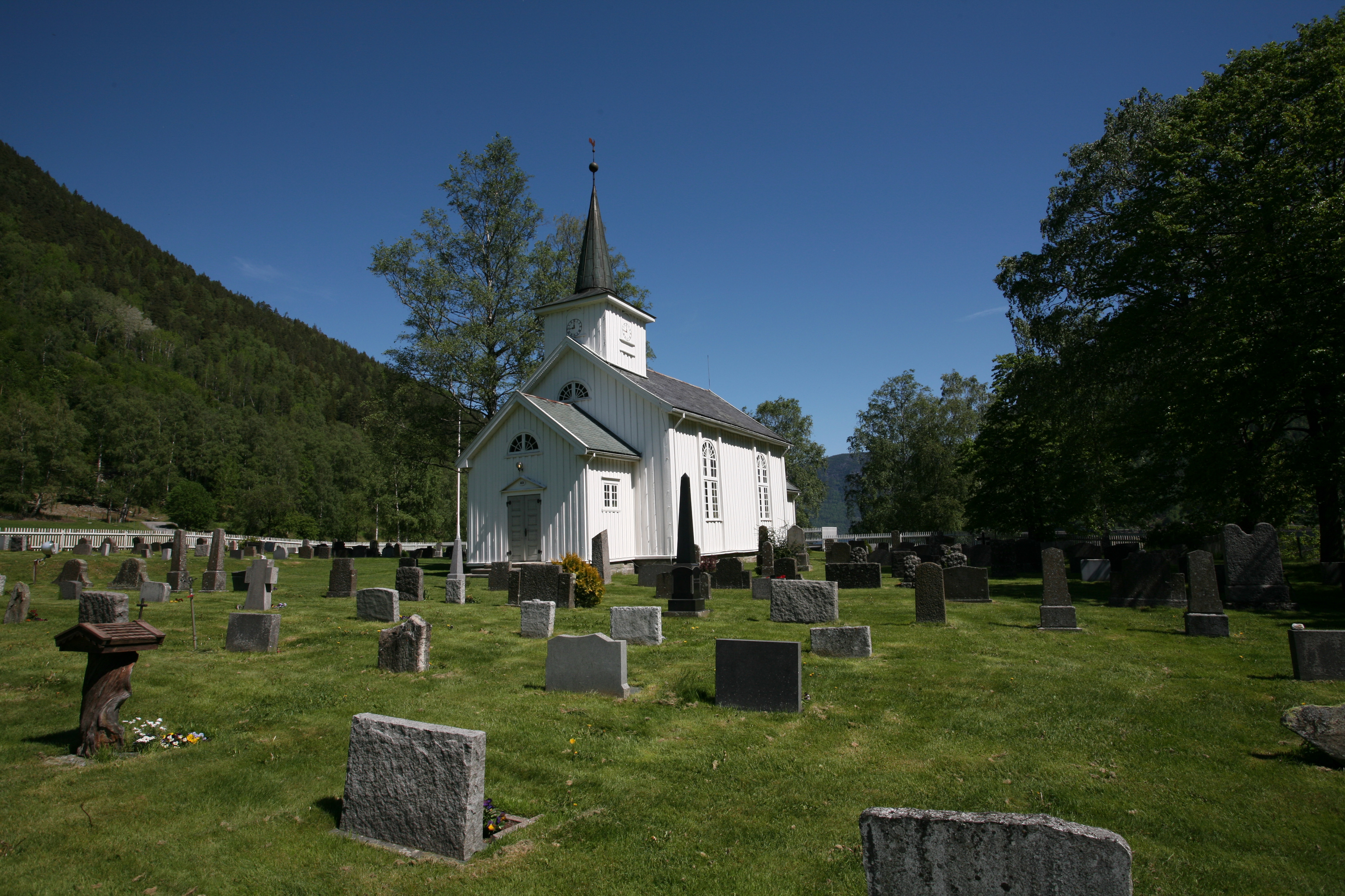 Picture of Mæl kirke (Telemark - Norway)